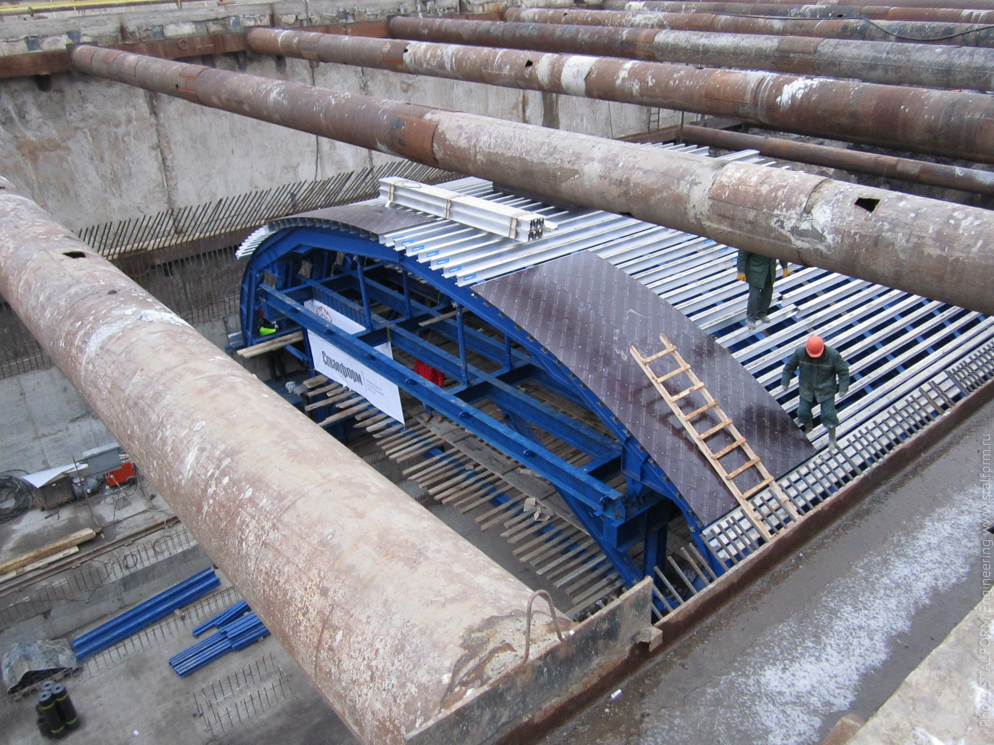 Formwork system for cut-and-cover construction Metro Station Alma-Atinskaya in Moscow/ installation of the plywood deck